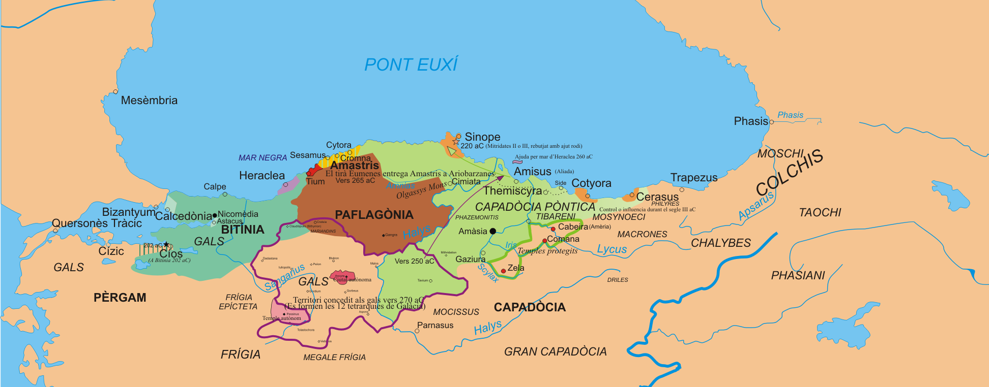 Pontus 270-188 BC